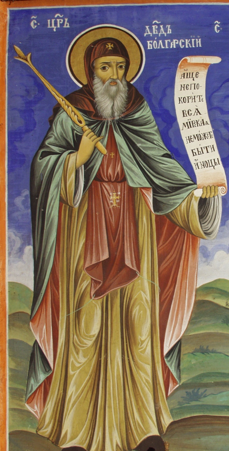 Archangels Chapel in Rila Monastery Frecos.